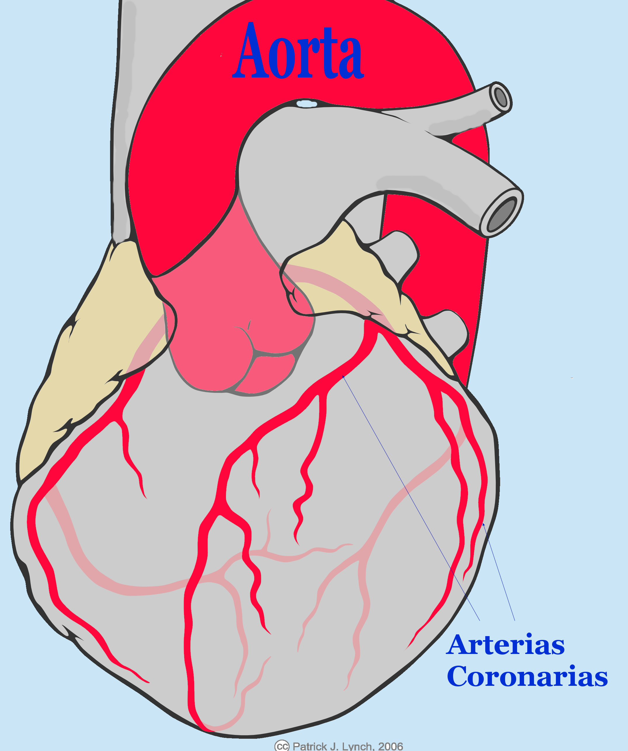 Image of the heart showing the coronary arteries and the aorta